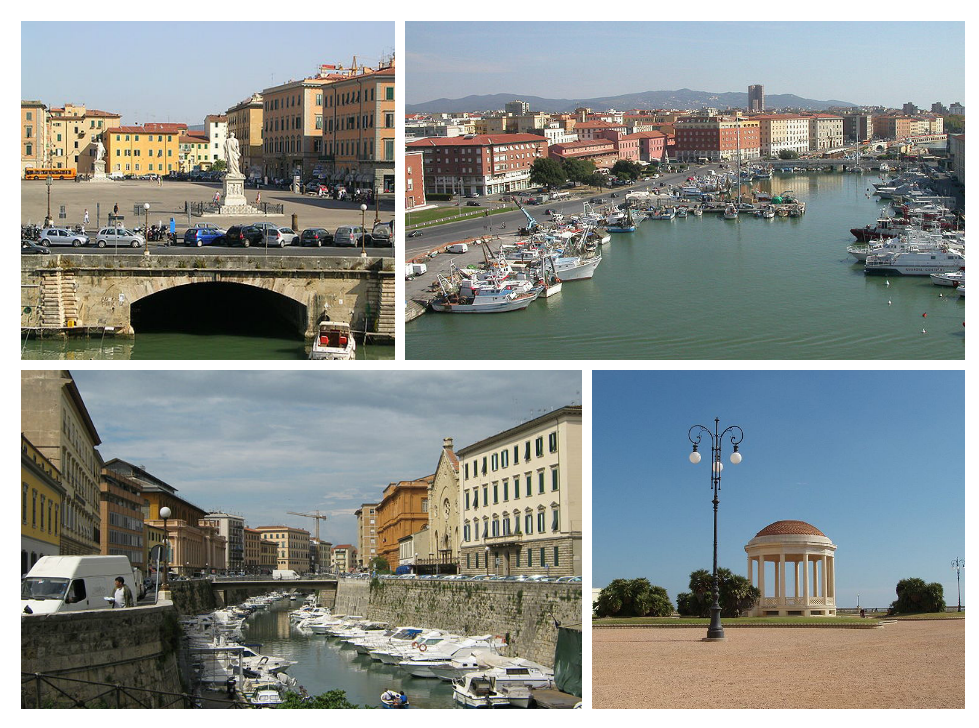 Photoccolage of Livorno, Italy